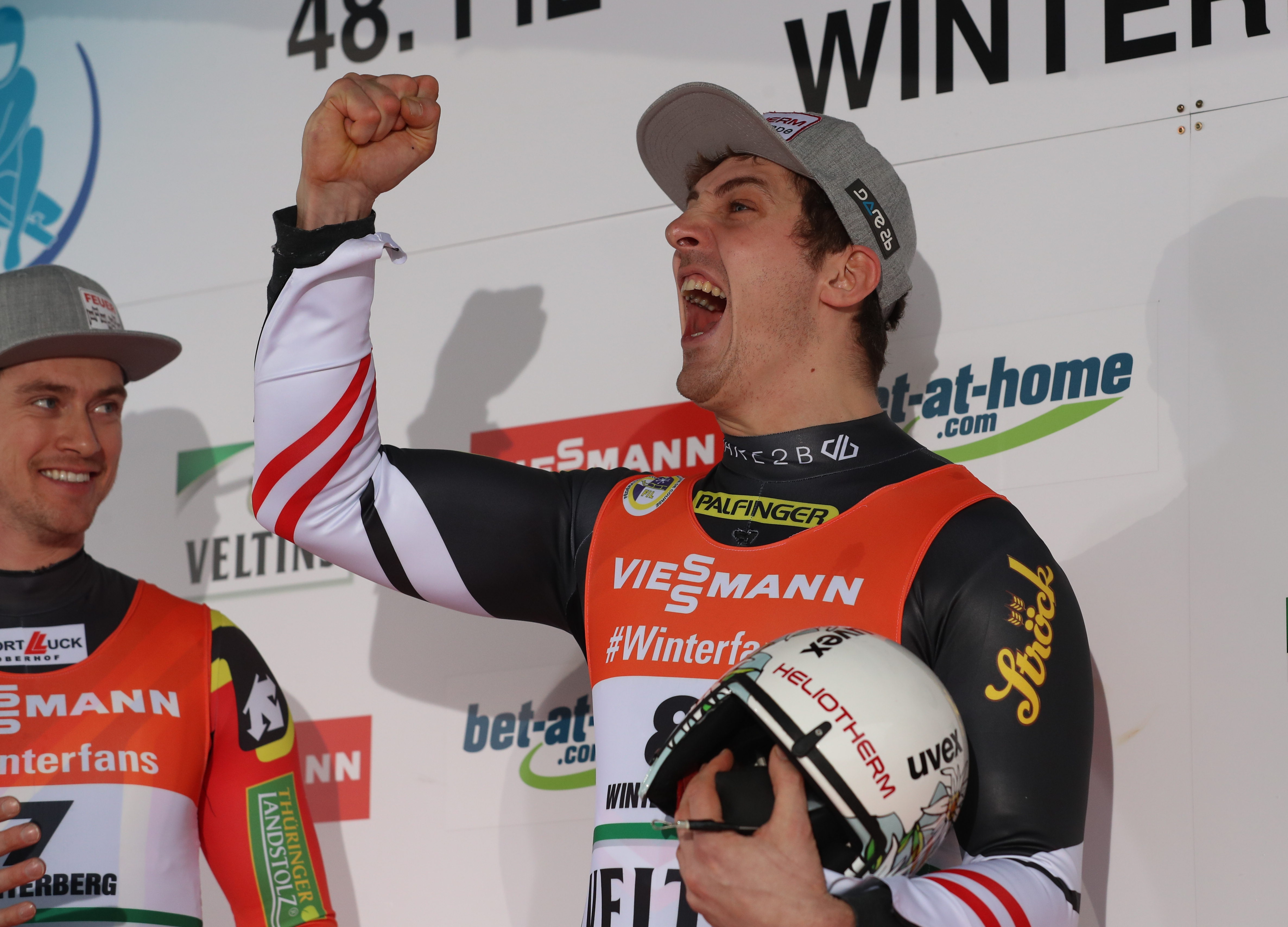 Men's race at the FIL World Luge Championships 2019 in Winterberg